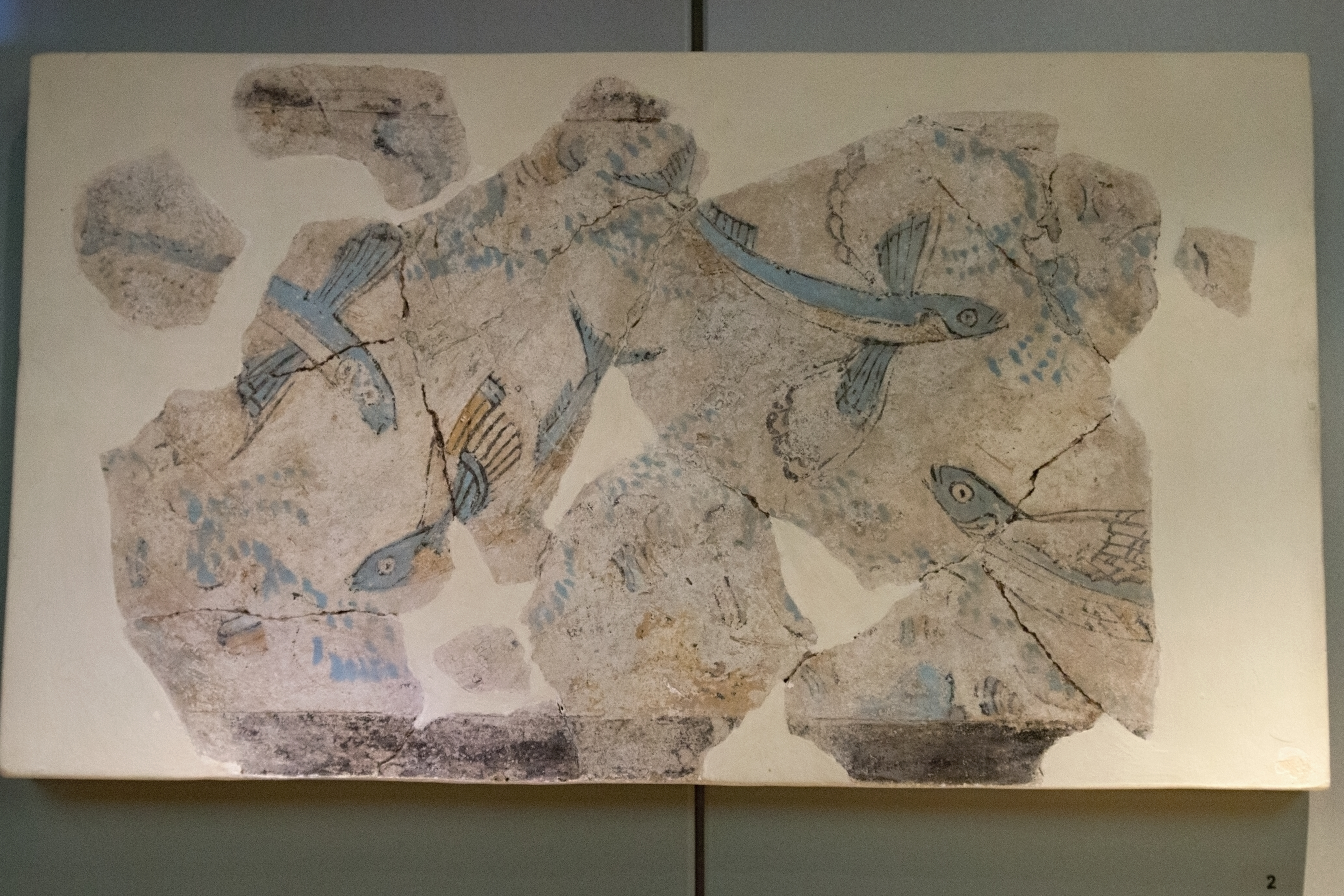 Flying-fish diving and swimming among fish-eggs and sponges attached on rocks. Wall painting fragment from Phylakopi III/1, Melos. Late Cycladic I, ca 17th or early 16th century BC. National Archaeological Museum Athens, NAMA 5844.